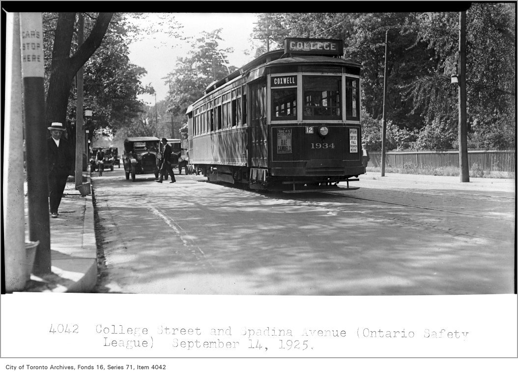 Creator: Alfred J. PearsonDate: September 14, 1925Archival Citation: Fonds 16, Series 71, Item 4042Credit: City of Toronto Archives is in the public domain and permission for use is not required.